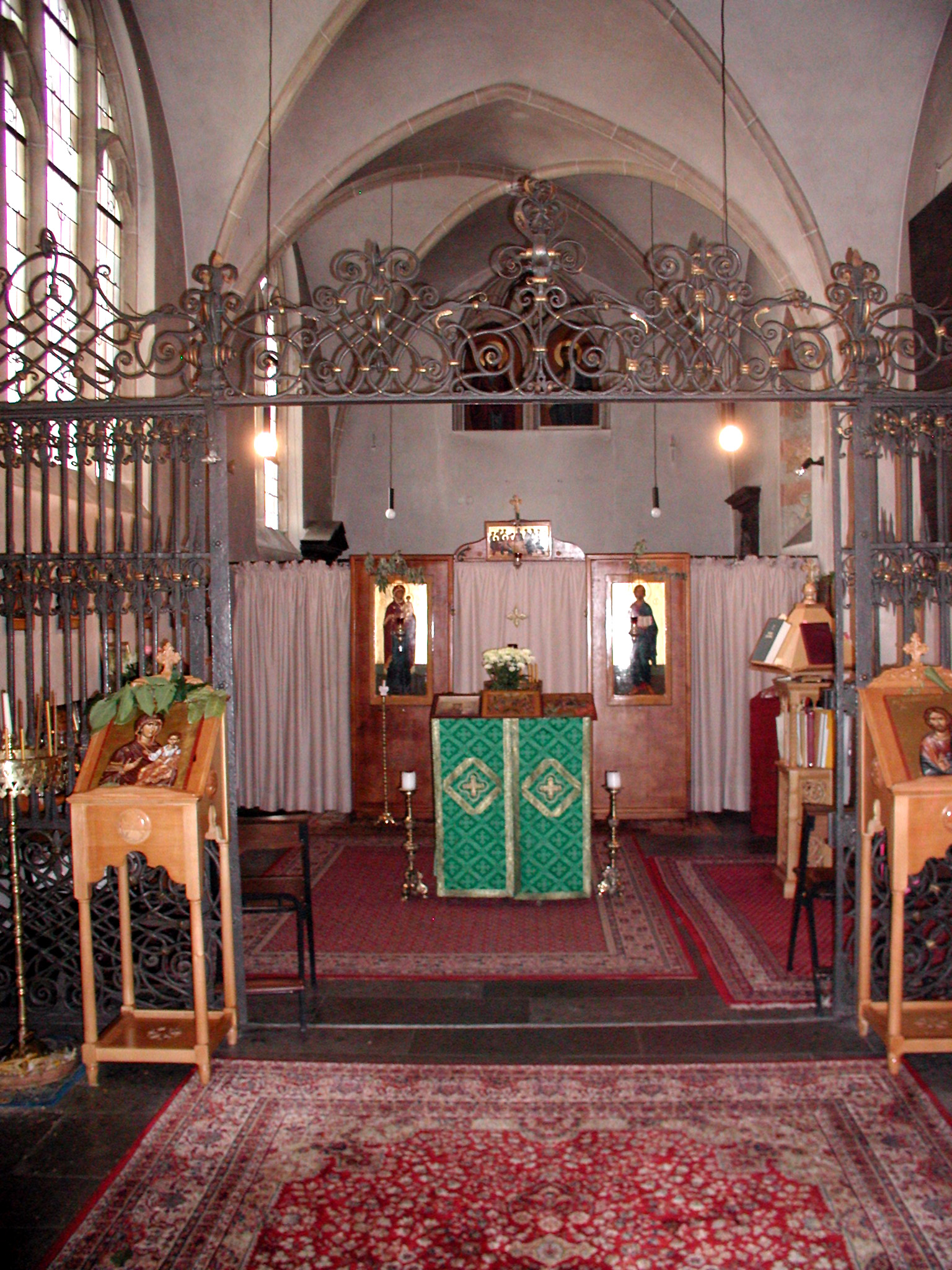 Cologne, inside "Maria Ablass"